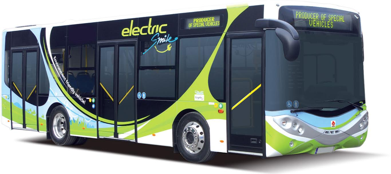 Ursus City Smile Electric Bus, Ursus, Lublin, Poland